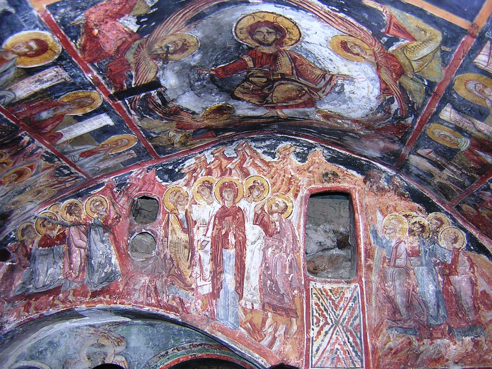 Frescoes from the rock church of Kalishta, near Struga